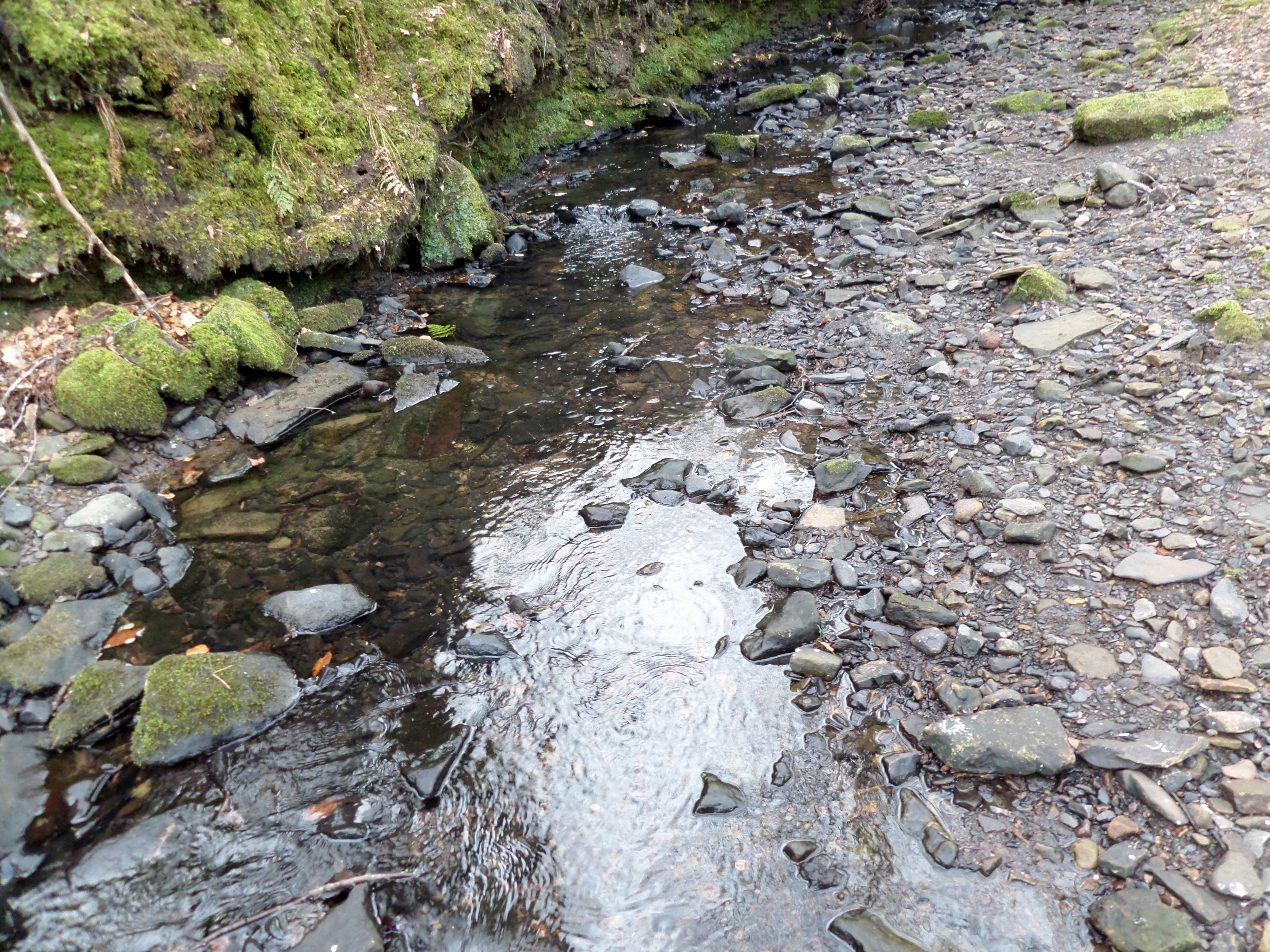 Black Manganese Bacterial deposits on rocks in the Place Burn, Kilbirnie, North Ayrshire, Scotland.